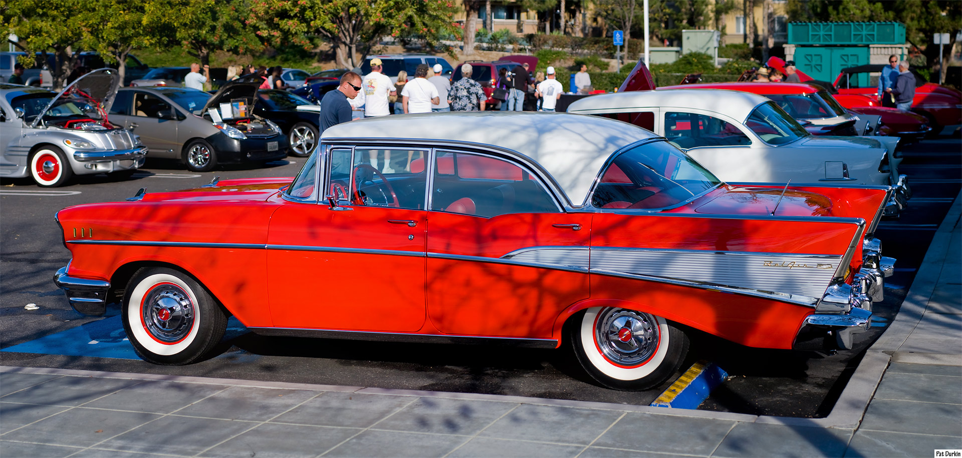 1957 Chevrolet Bel Air Sport Sedan - rear left